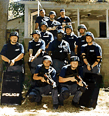 Special Response Team of the US Mint Police